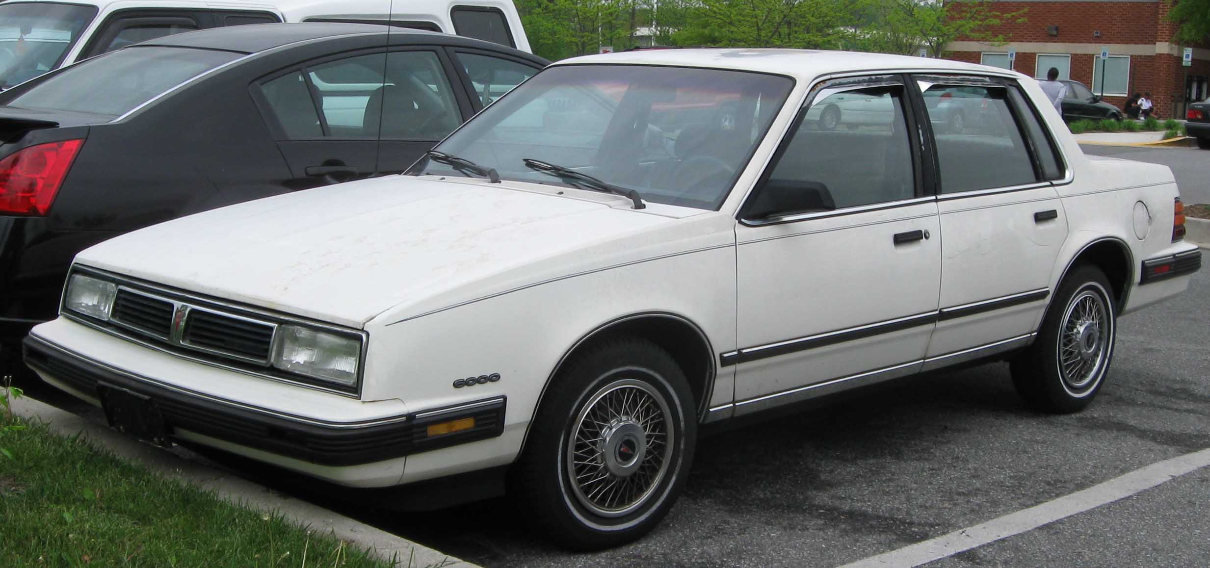 1987-1988 Pontiac 6000 photographed in Beltsville, Maryland, USA.